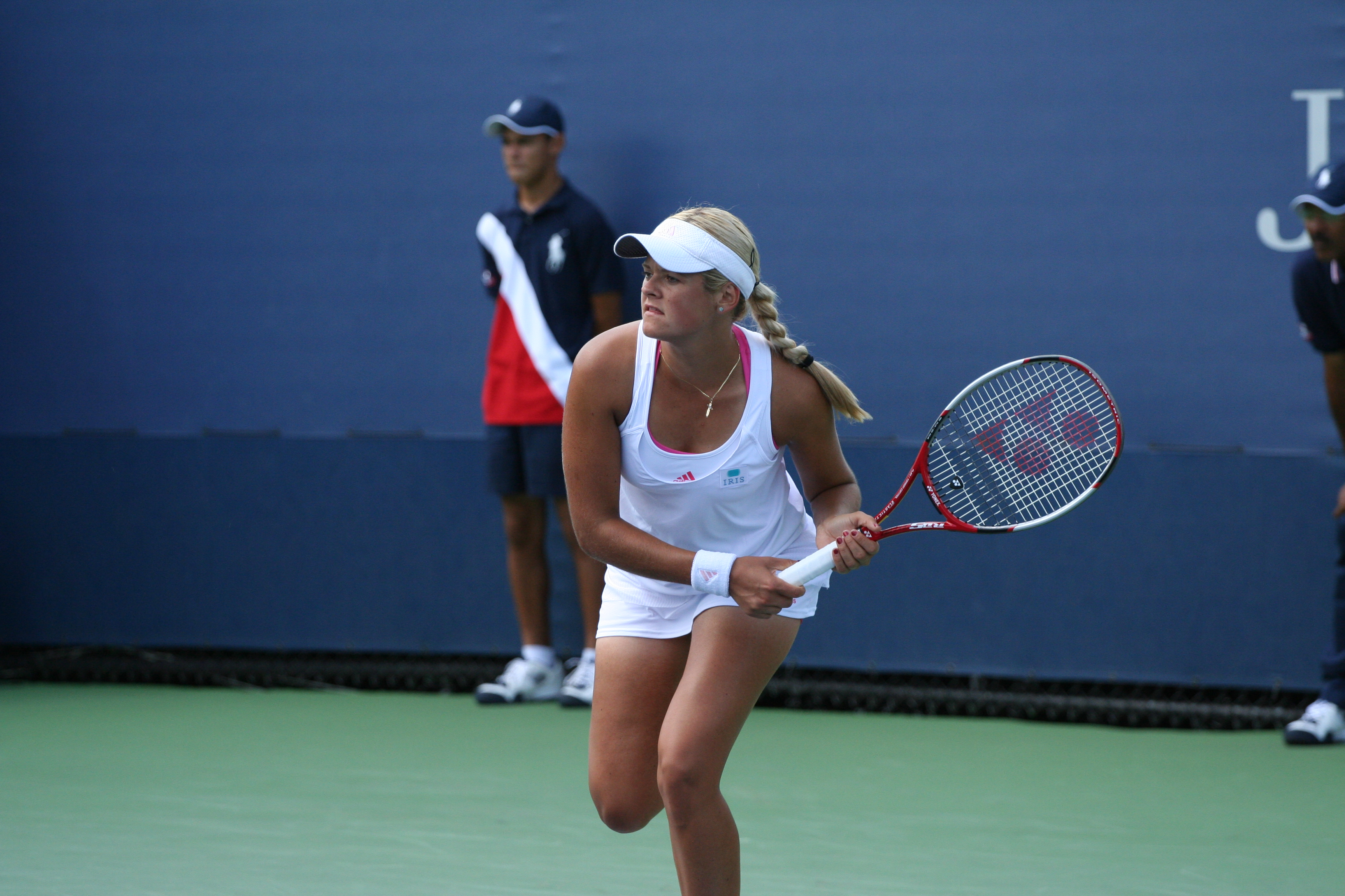 U.S. Open Monday, Aug. 31, 2009